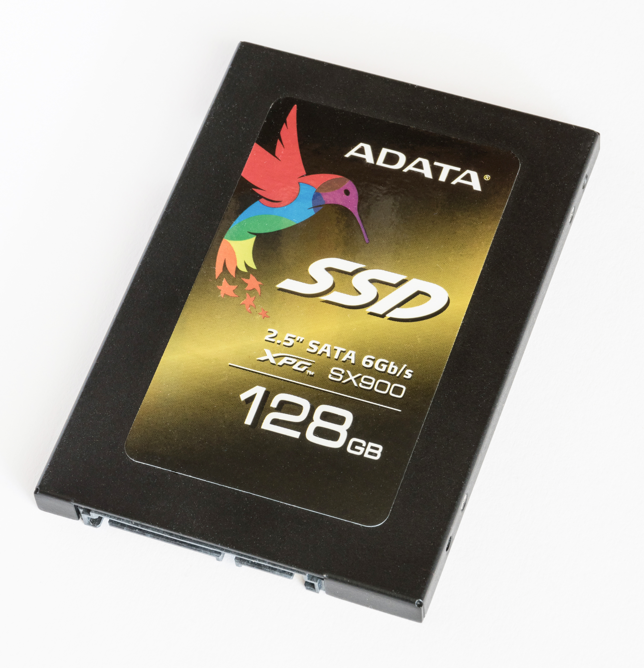 Solid-state drive ADATA SX900 128GB